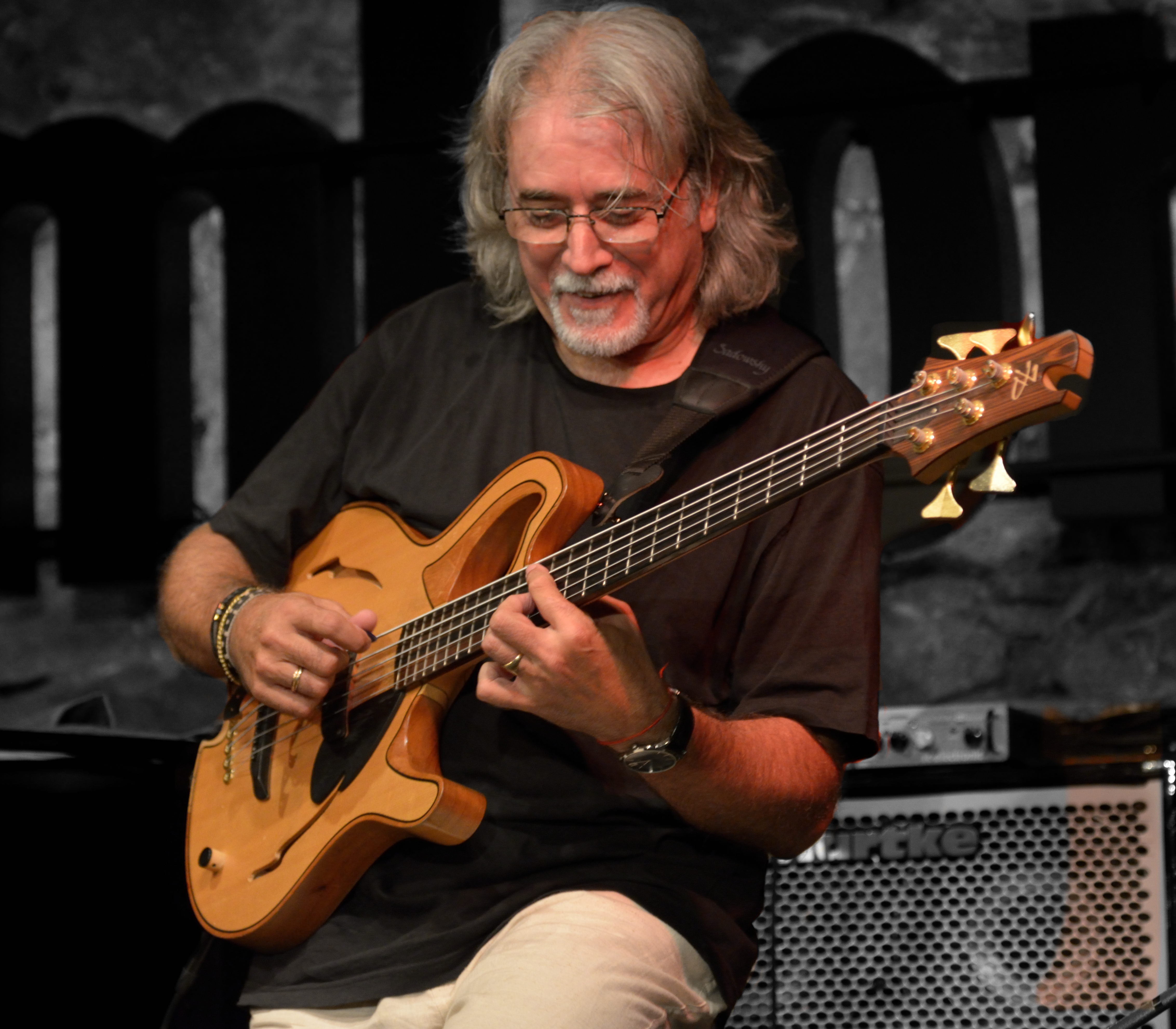 Carles Benavent, bassist